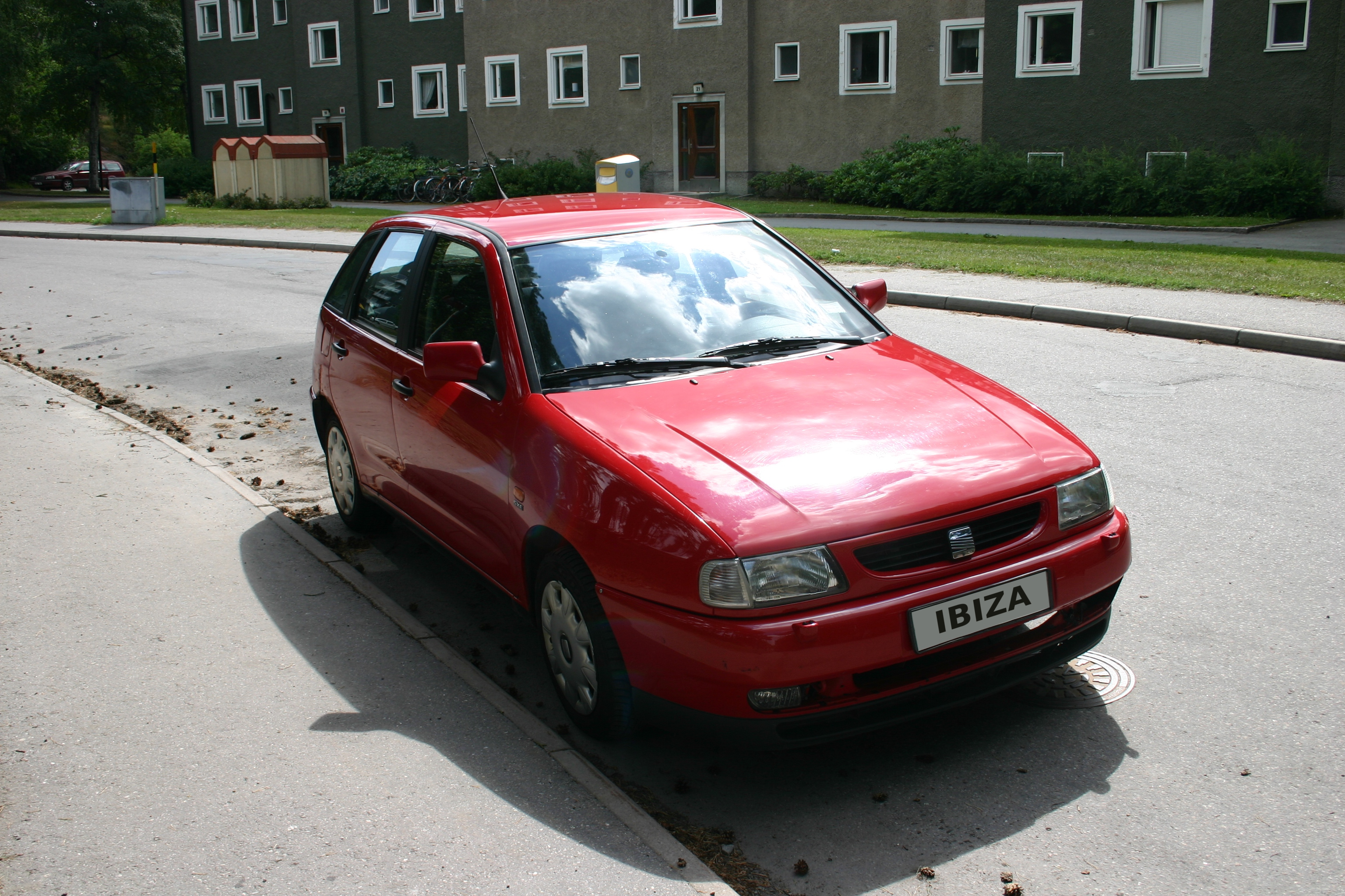 My red 5-door Seat Ibiza '99